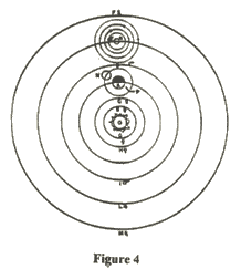 Diagram showing the solar system - Day 3 of the dialogue